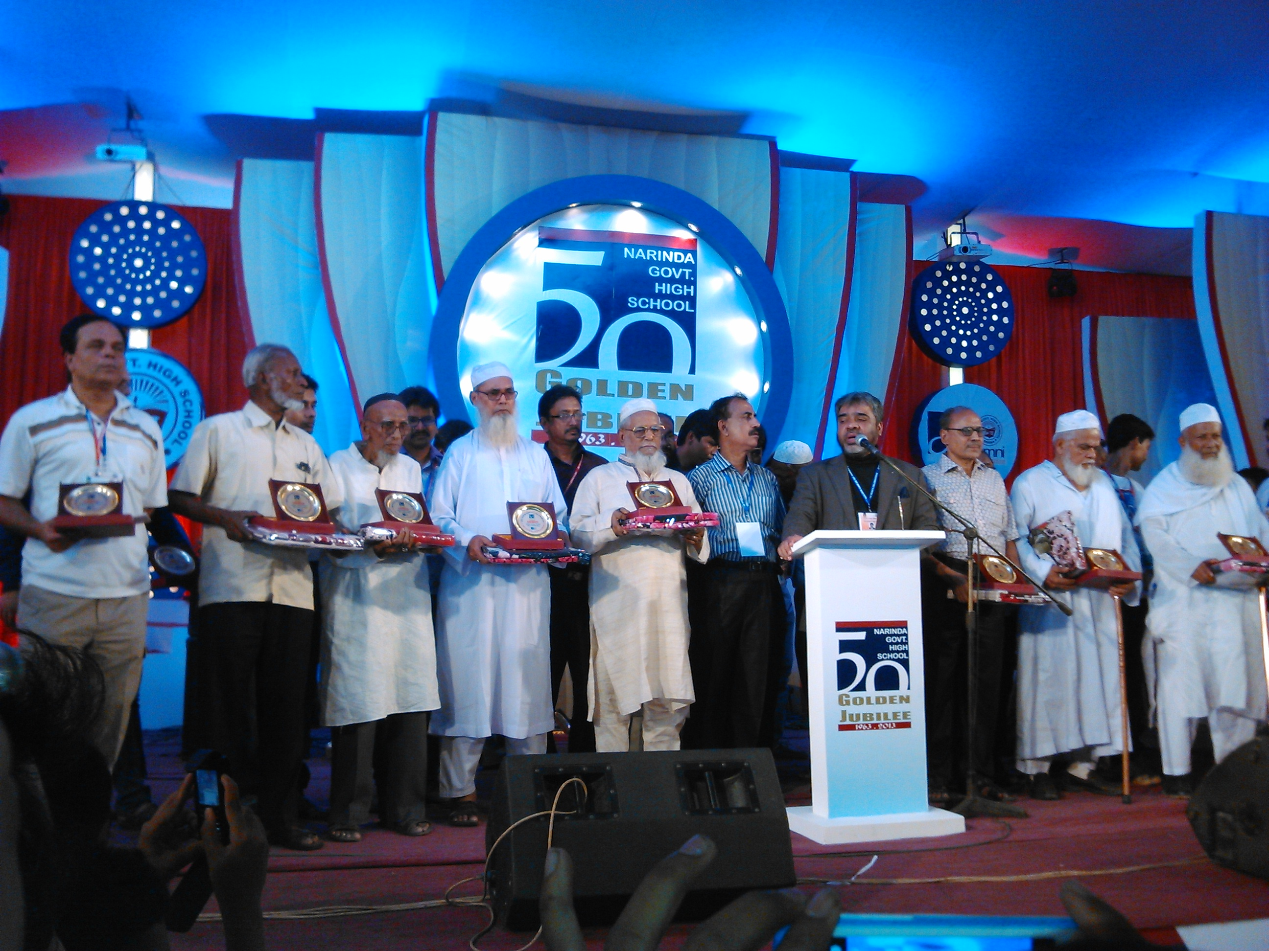 golden jubilee program of Narinda school in Dhaka, Bangladesh